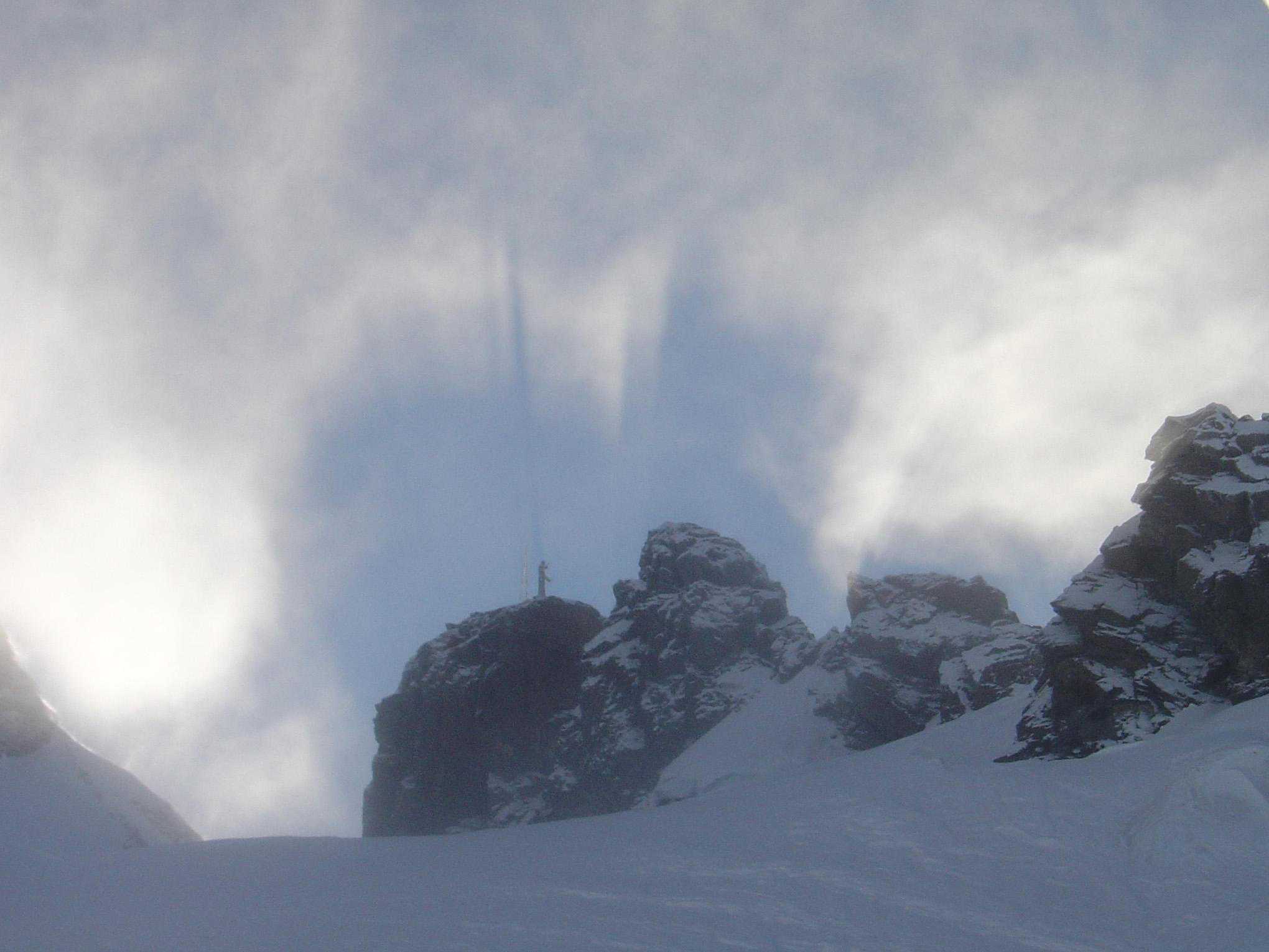 Sun rising behind Balmenhorn